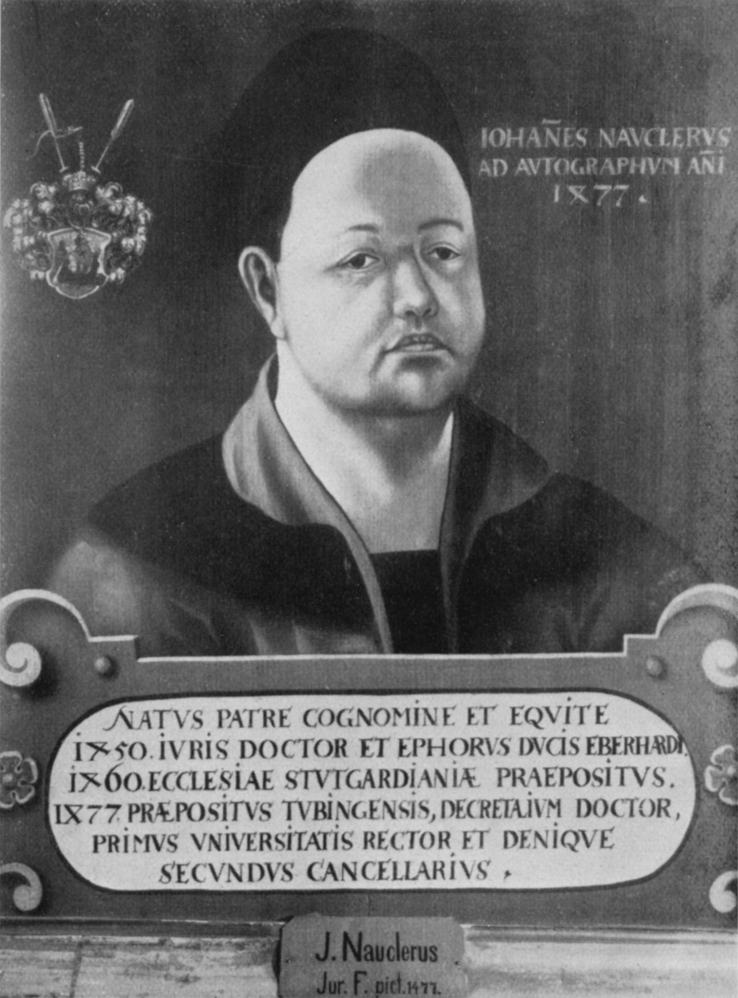 Johannes Nauclerus. Oil painting, copy, late 16th century